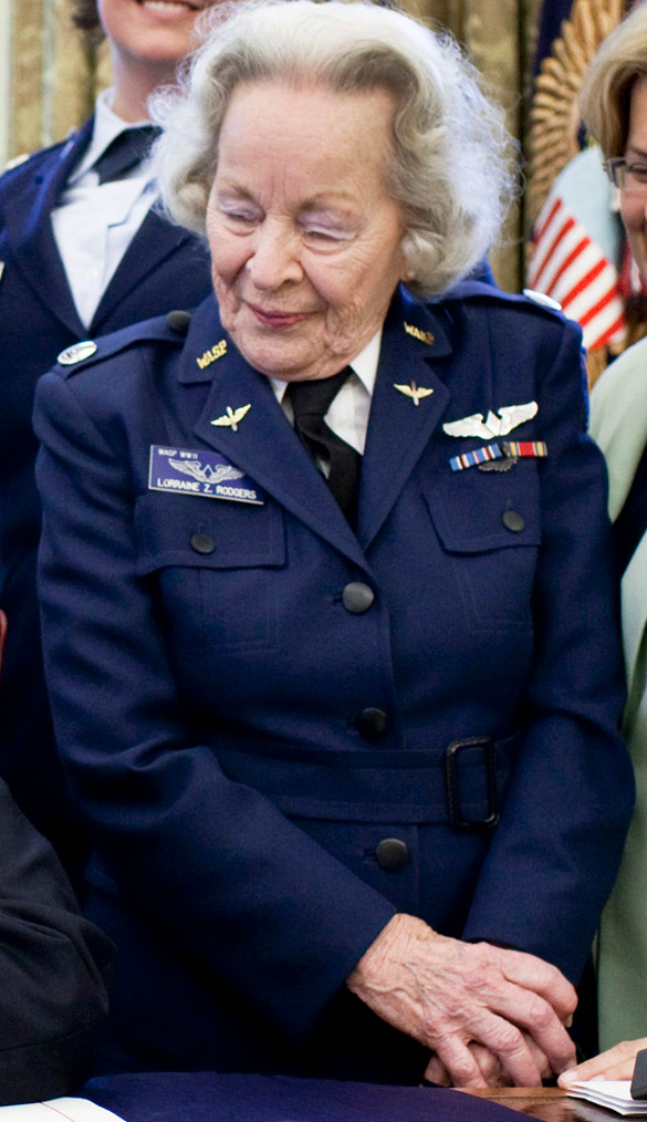 Lorraine Z. Rodgers being honored in the Oval Office